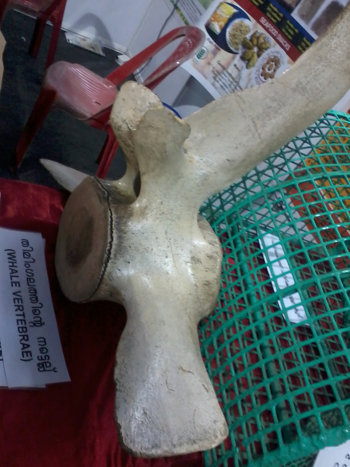 back bone of thiminkalam